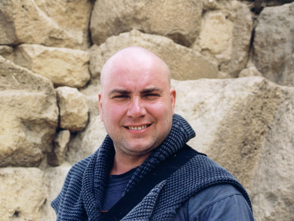 A photo of Serguey Zagraevsky.